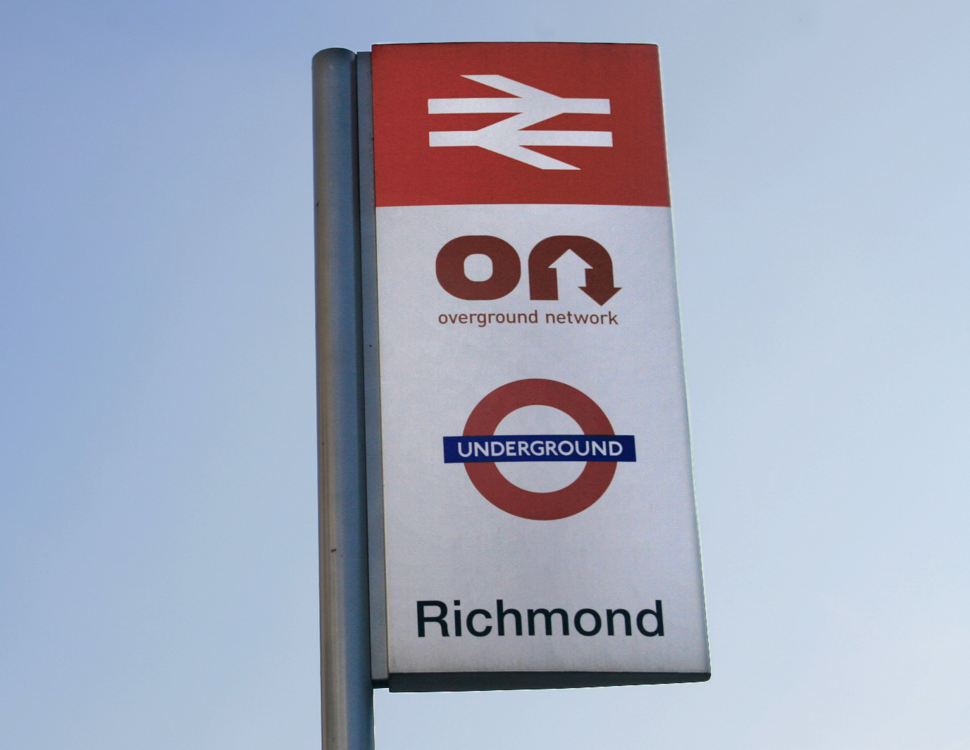 A sign outside Richmond Station, London, showing the logos of National Rail, the defunct Overground Network and London Underground.